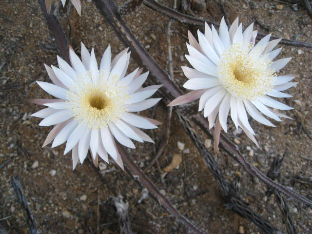 Night blooming cereus or "Queen of the Night" (Peniocereus greggii subsp. transmontanus)